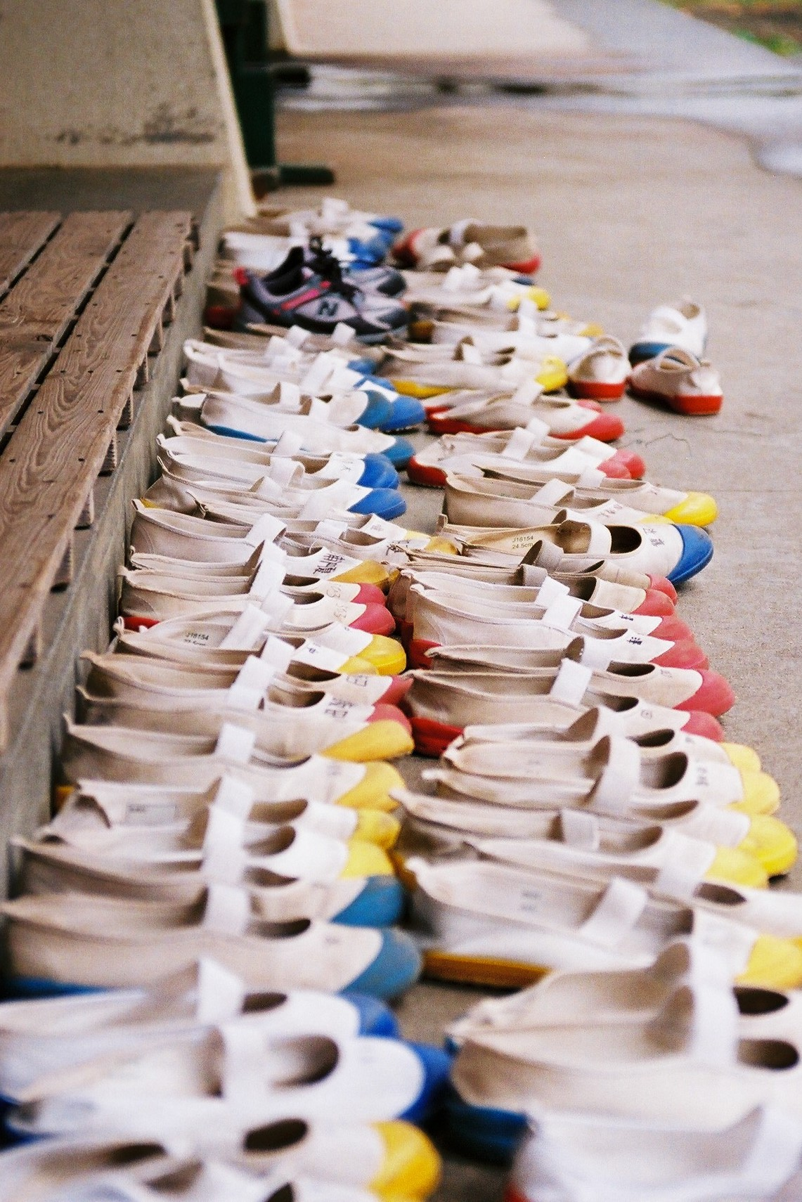 Uwabaki of a Japanese junior high school.